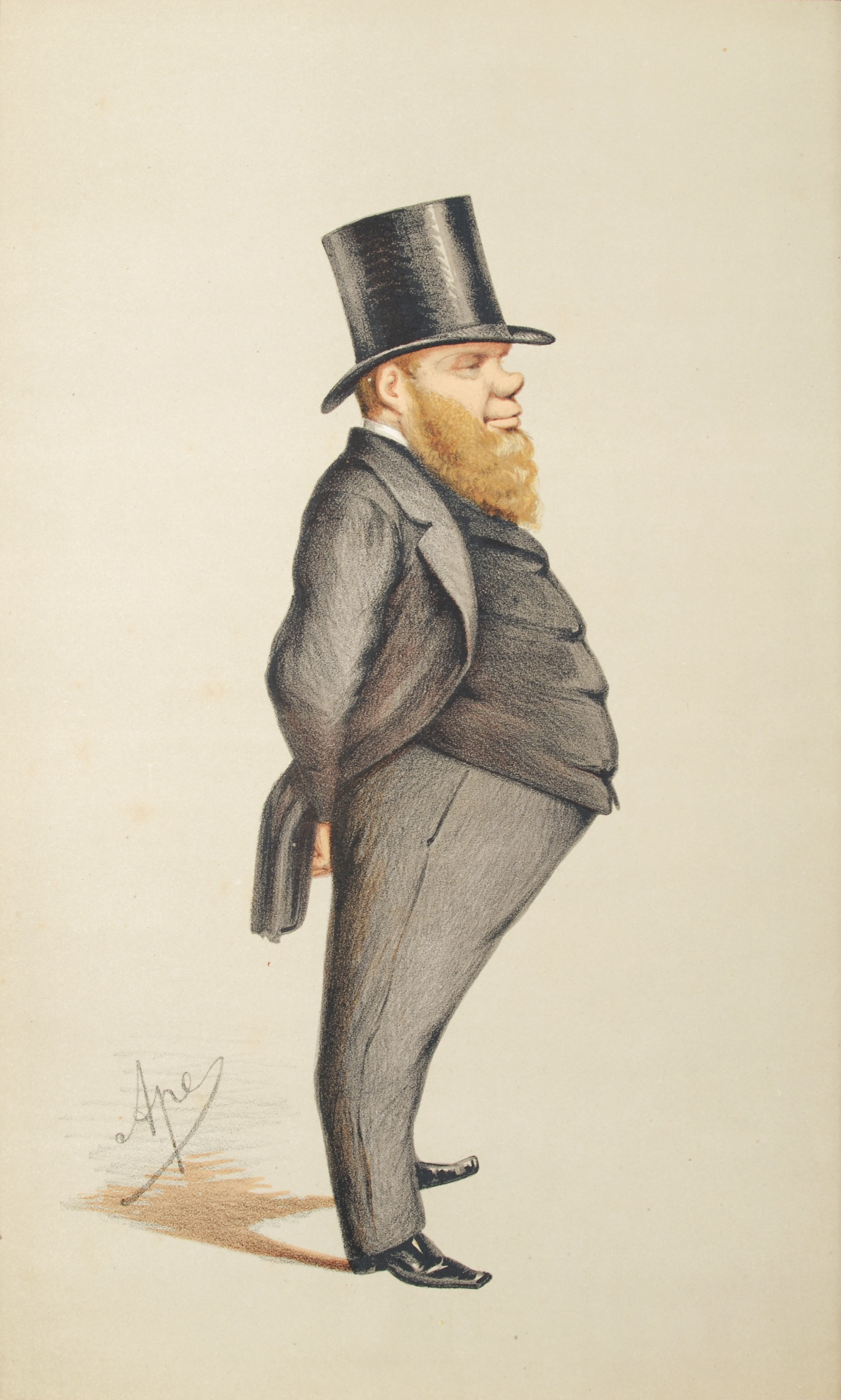 Statesmen No.79: Caricature of Mr Richard Dowse MP.